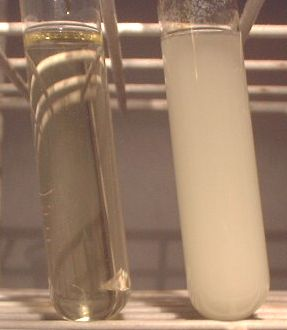 negativ and positiv iodoform test